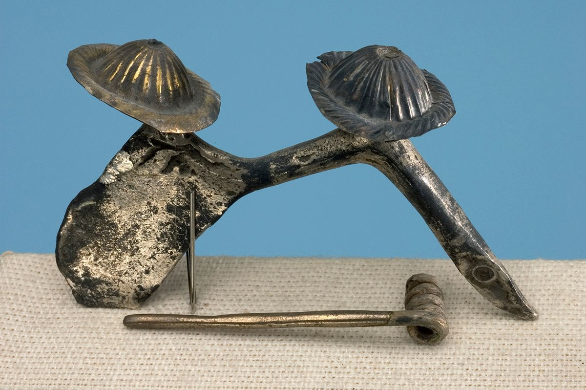 Rosette fibula (brooch) made of silver from the Roman Age, foundt at Gjeite in Levanger, Nord-Trøndelag, Norway.